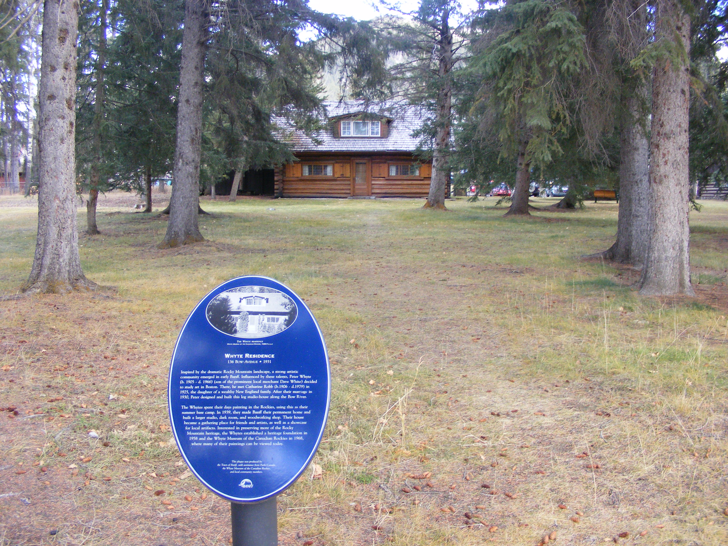 Whyte residence, 130 Bow Avenue, Banff, Alberta. Location on the Banff historical walking tour.